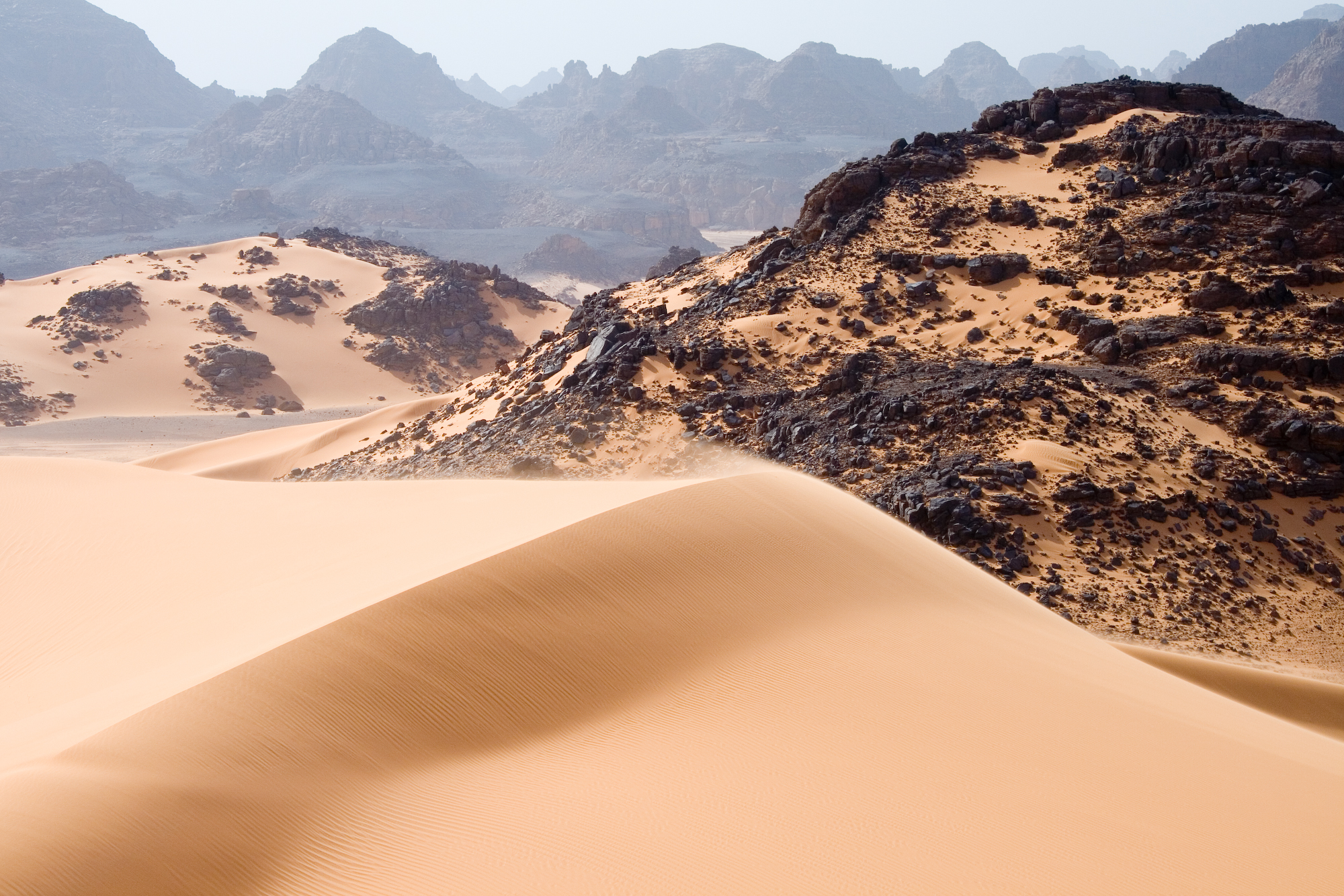 Moving sand dunes, rocks and mountains in Tadrart Acacus a desert area in south western Libya, part of the Sahara.